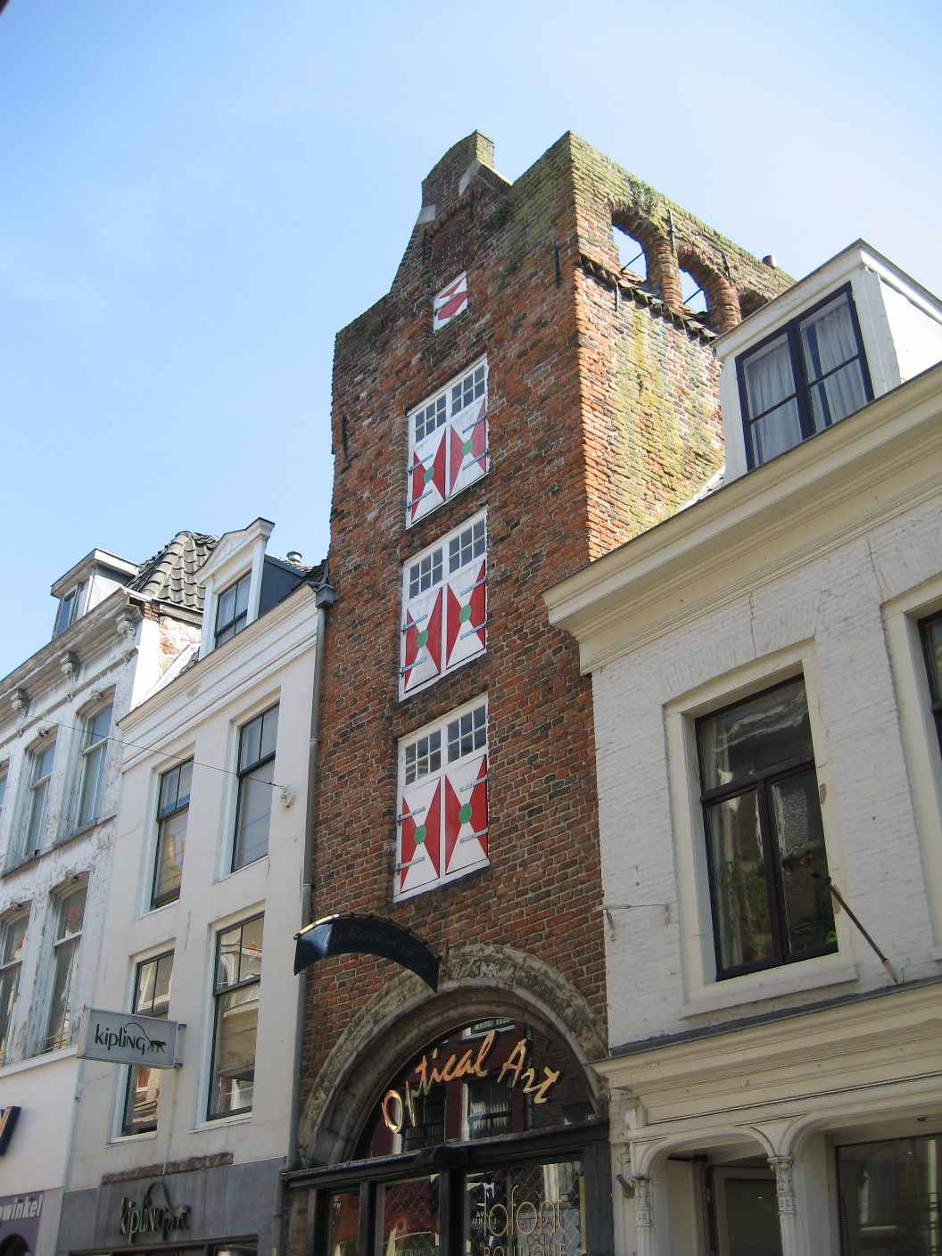 Gate House of Zoudenbalch Palace in the Mariastraat, Utrecht, the Netherlands. Photo taken by S.F. Uys Rootenberg in July 2006.